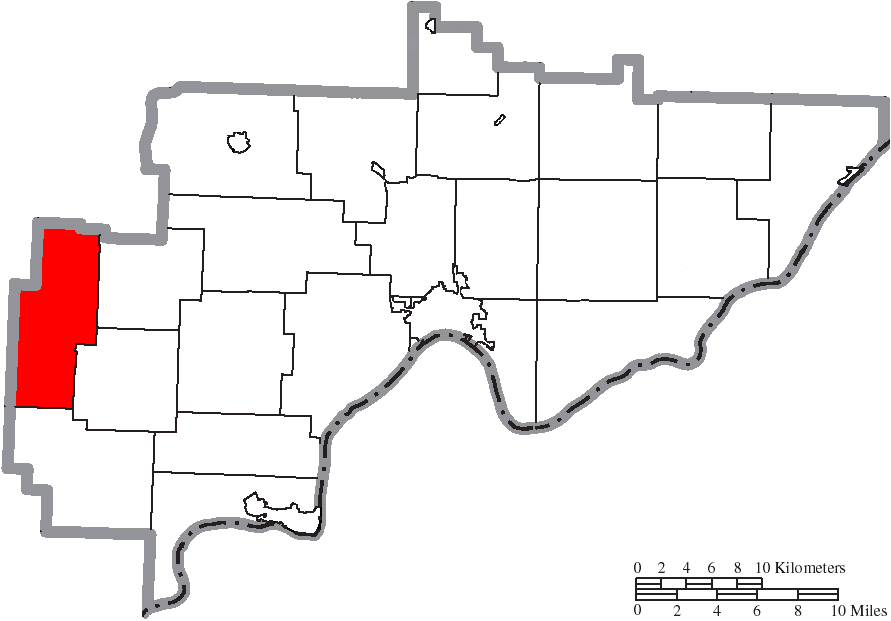 Map of the municipal and township boundaries of Washington County, Ohio, United States, as of the 2000 census, with the location of Wesley Township highlighted. Township borders are shown only in unincorporated areas in order to differentiate incorporated and unincorporated areas more clearly.